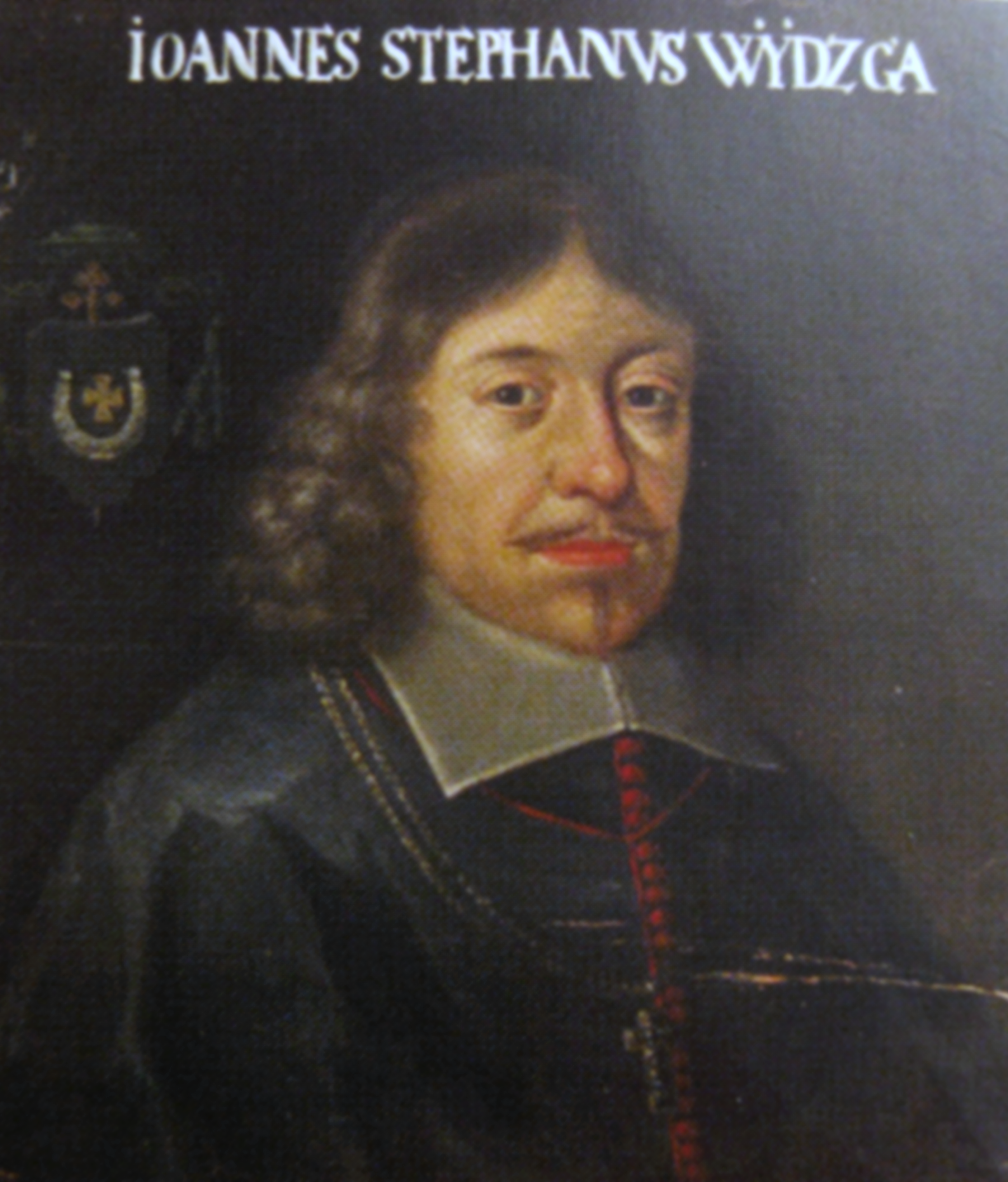 Jan Stefan Wydżga